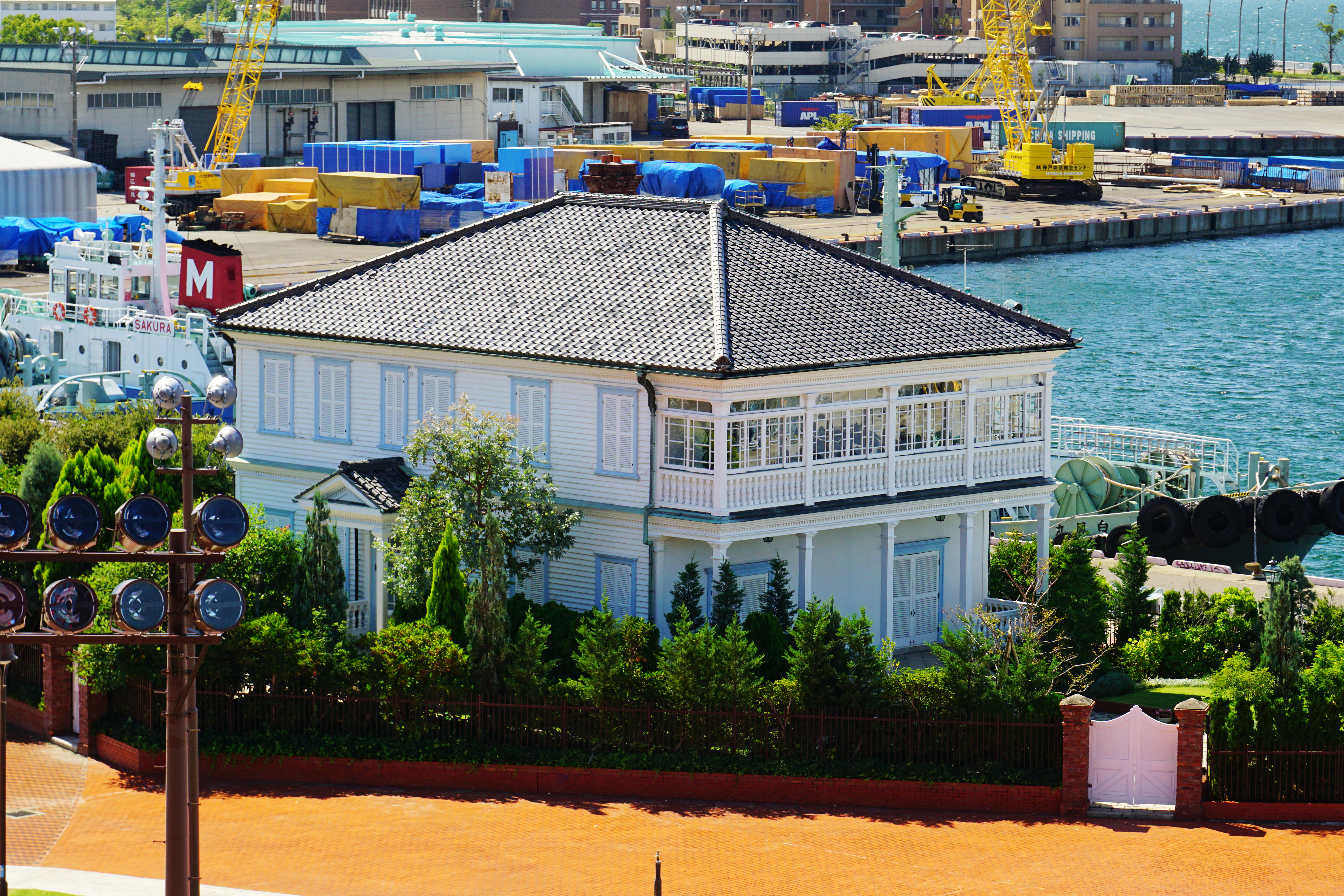 Minato-ijinkan in Kobe, Hyogo prefecture, Japan